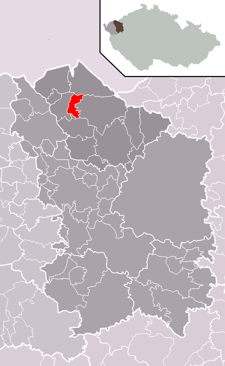 Location of Abertamy town within Karlovy Vary District and administrative area of Ostrov as a Municipality with Extended Competence.